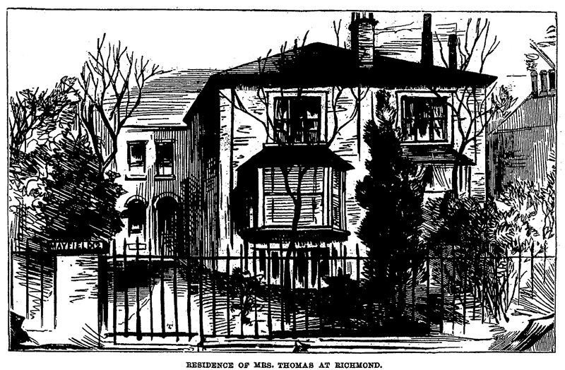 Residence of Mrs Thomas at Richmond